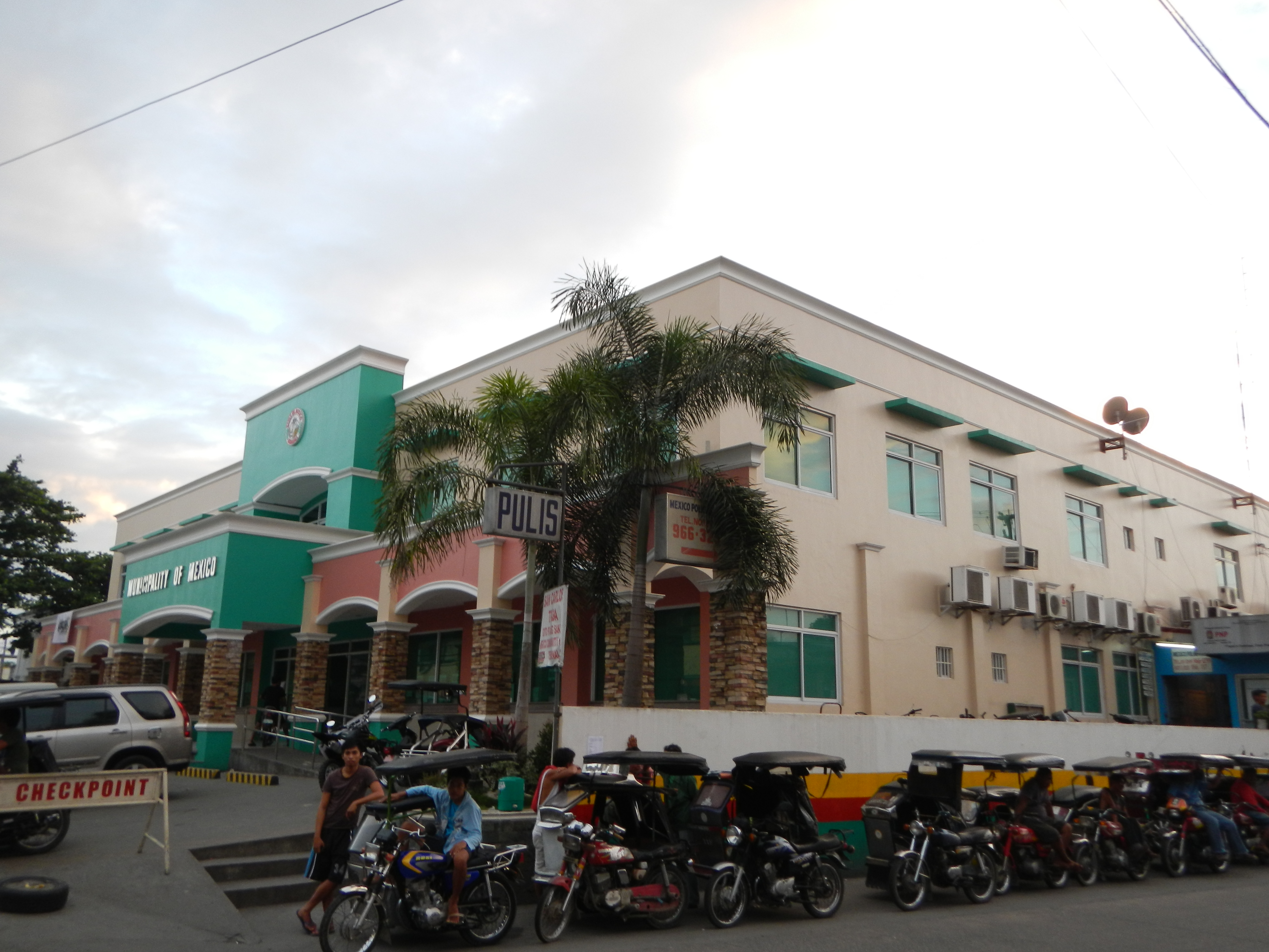 Mexico, Pampanga[1]